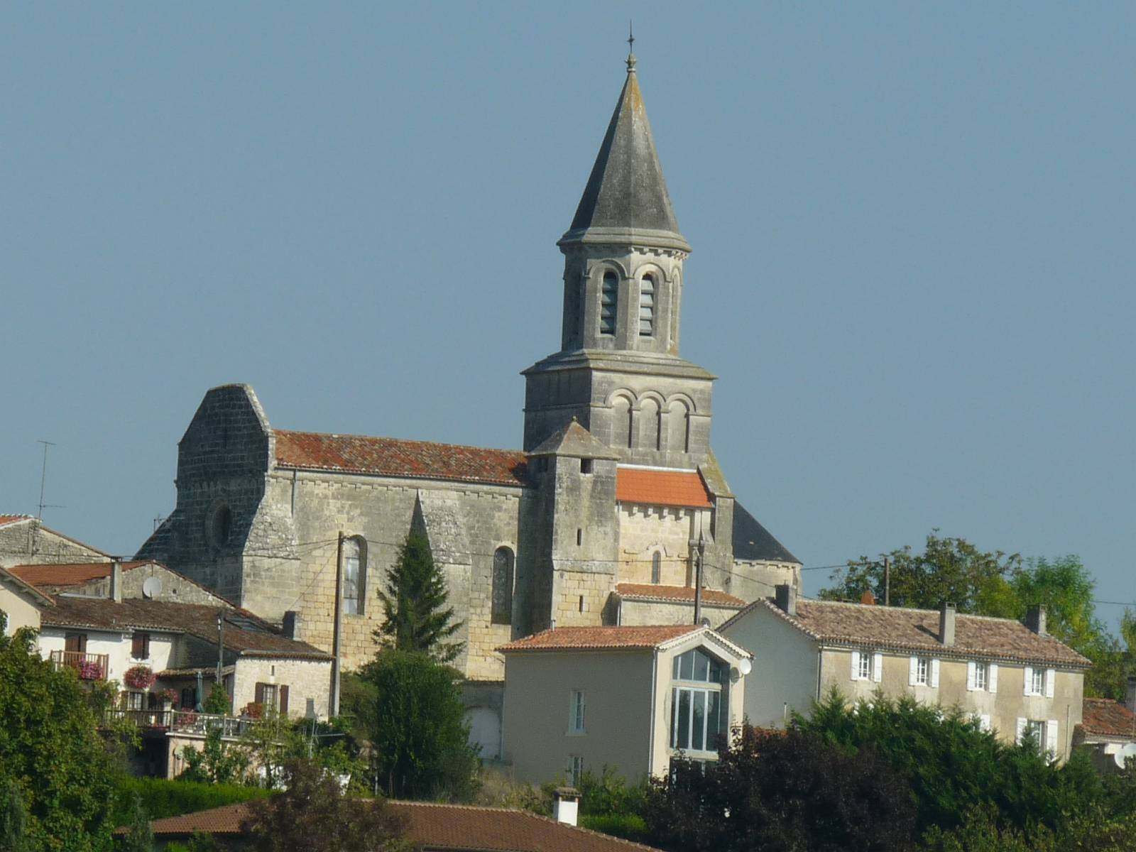 church of St-Simeux, Charente, SW France